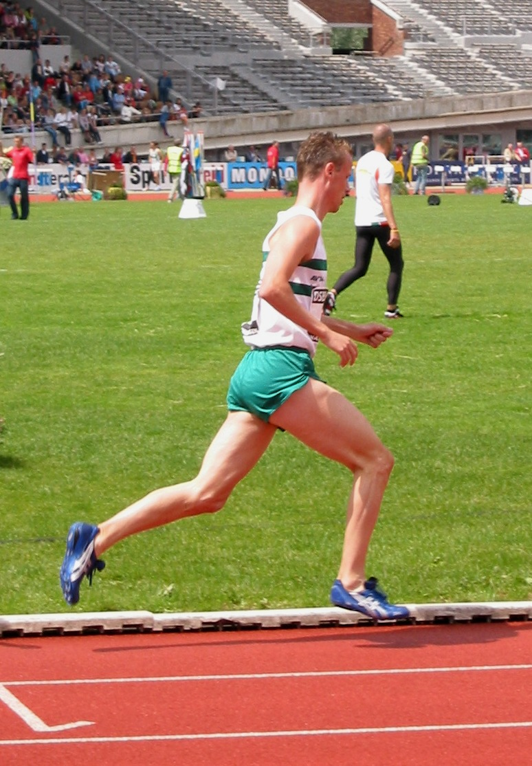 Dennis Licht, Dutch Championships 2007, Amsterdam, 3000 m steeplechase